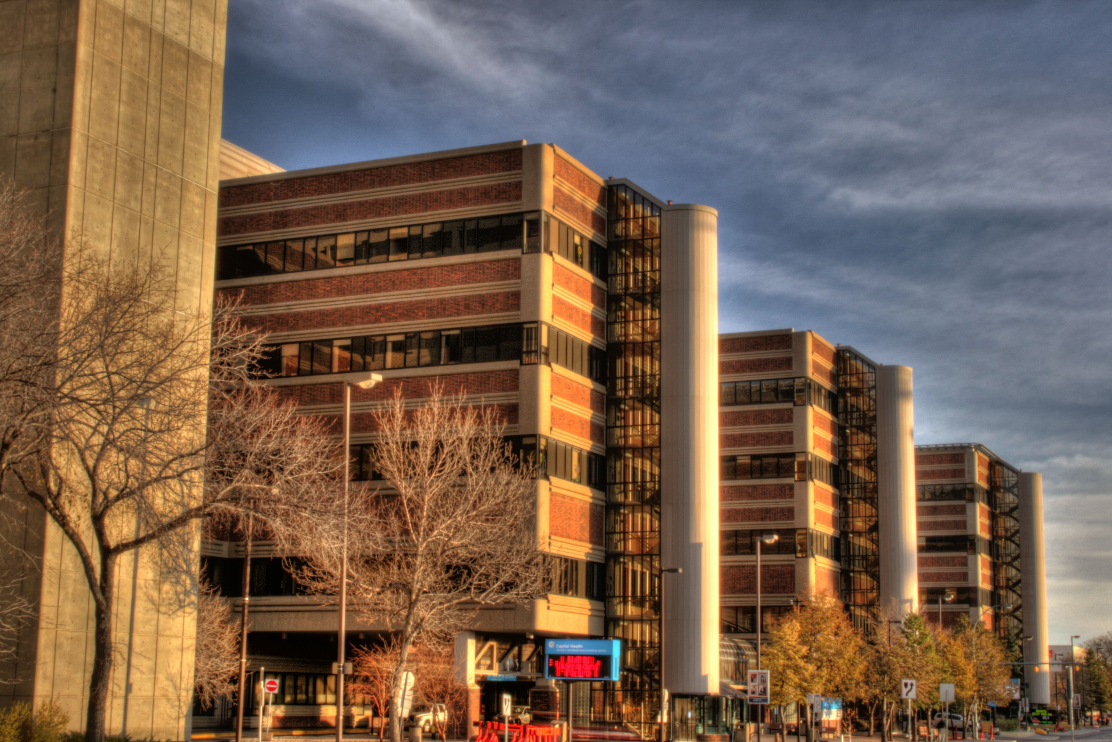 The west side of the University of Alberta Hospital Complex, Edmonton, Alberta, Canada.